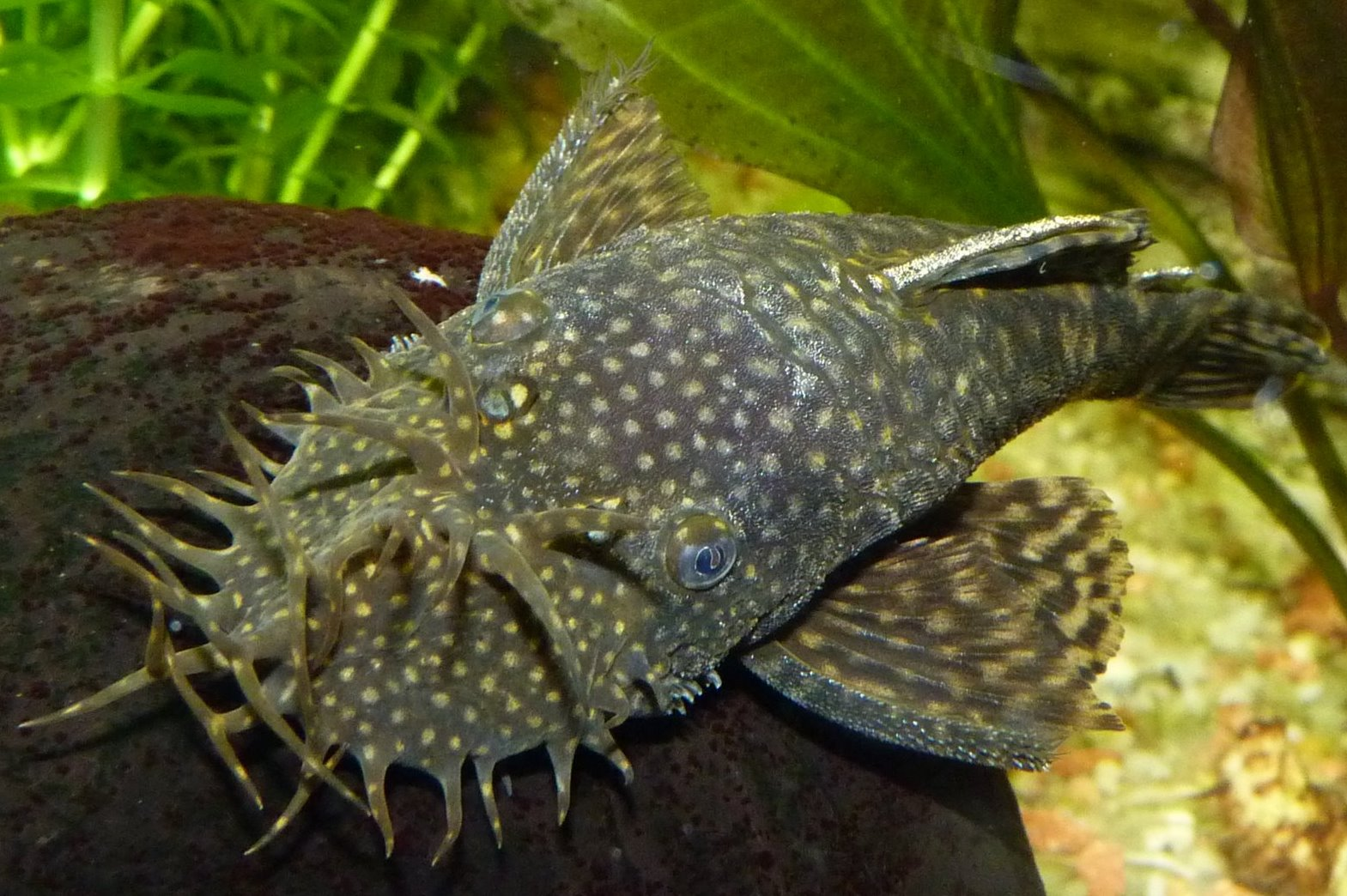 a Bristlenose Catfish (ancistrus dolichopterus) (male) is sitting on a coconut shell